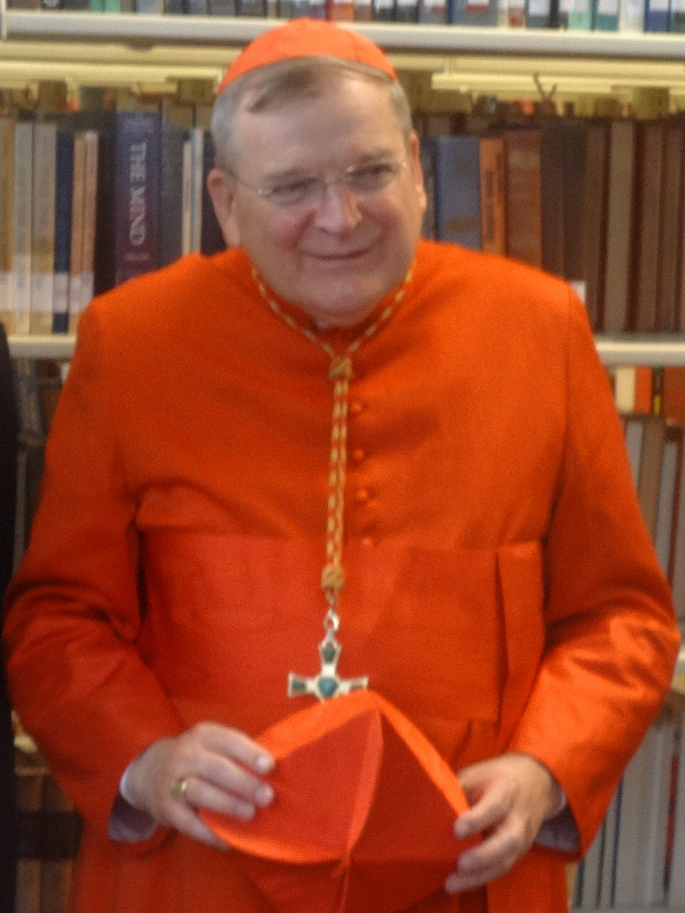 Raymond Leo Cardinal Burke in red with biretta